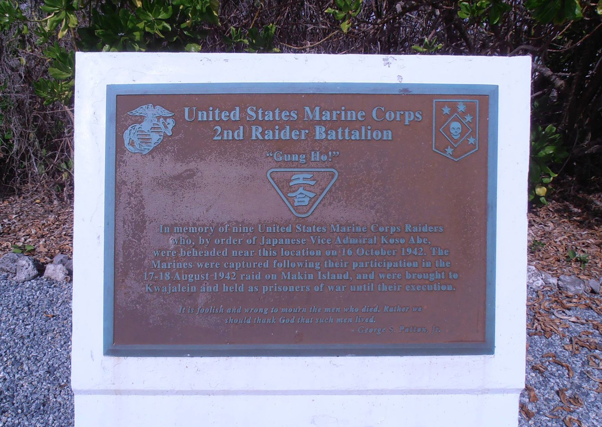 This is a plaque commemorating the Makim Island Raid in 1942. I took this photo myself when I visited Kwajalein.